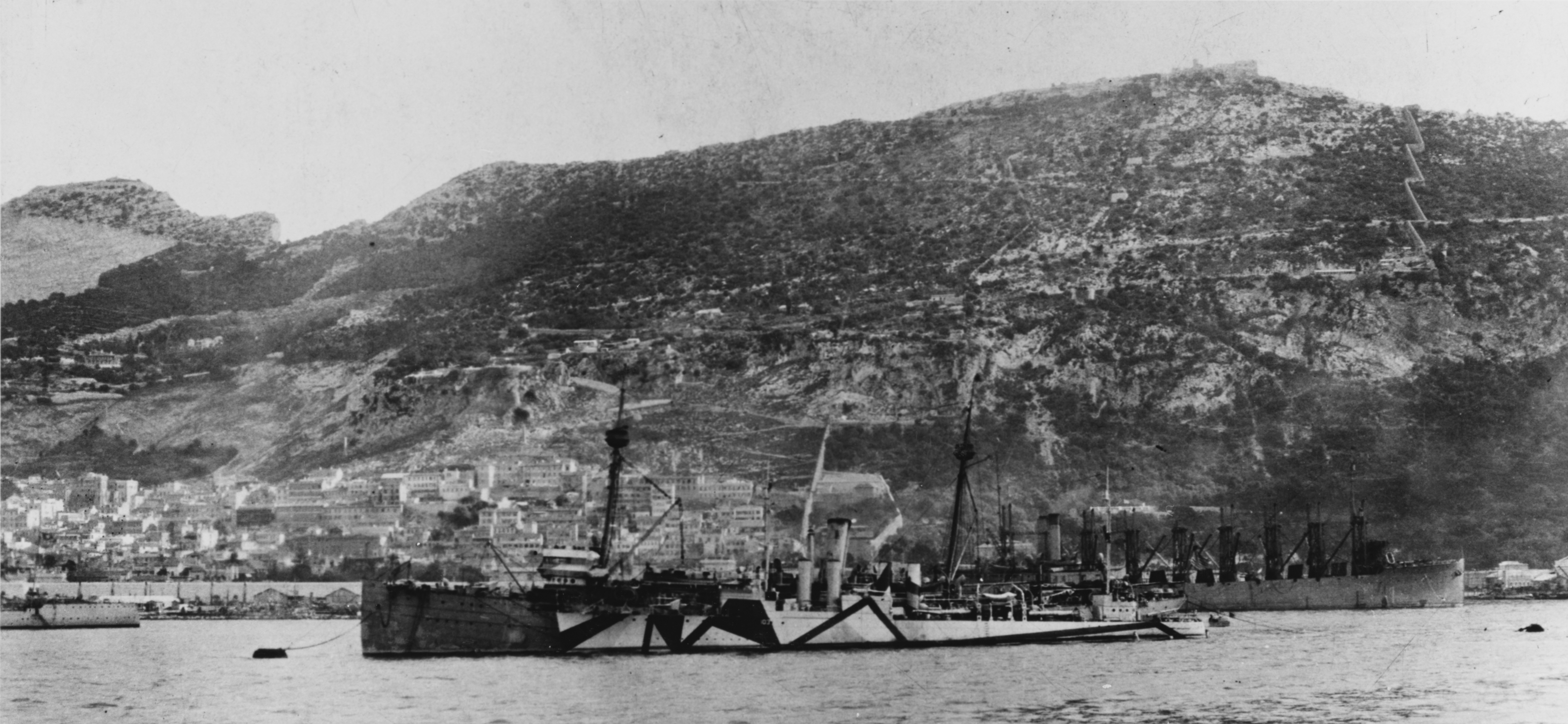 The U.S. Navy destroyer tender USS Buffalo (AD-8) at Gibraltar circa in December 1918, with the destroyer USS Schley (DD-103) alongside and the collier USS Jupiter (AC-3) in the background. Note that Schley is still wearing pattern camouflage, while Buffalo has been repainted into overall grey.